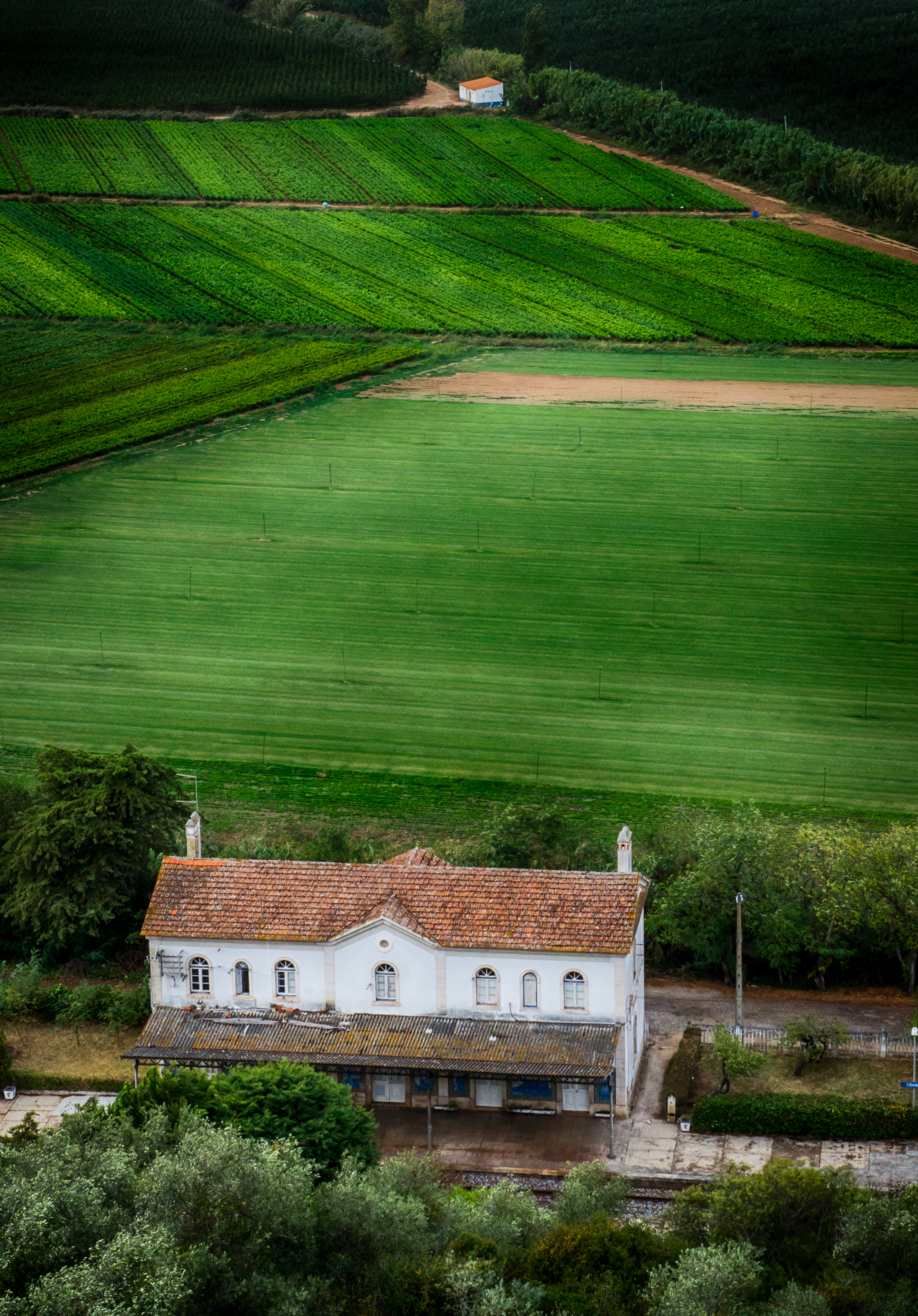 Óbidos is a Portuguese town in the district of Leiria, in the Centre Portuguese region and close to the Atlantic Ocean coast. The name Óbidos comes from the Latin “oppidum”, which means “fortified city”. Definitely a "must see destination" on your next trip to this surprising country. Find more here bit.ly/1NjgnA5